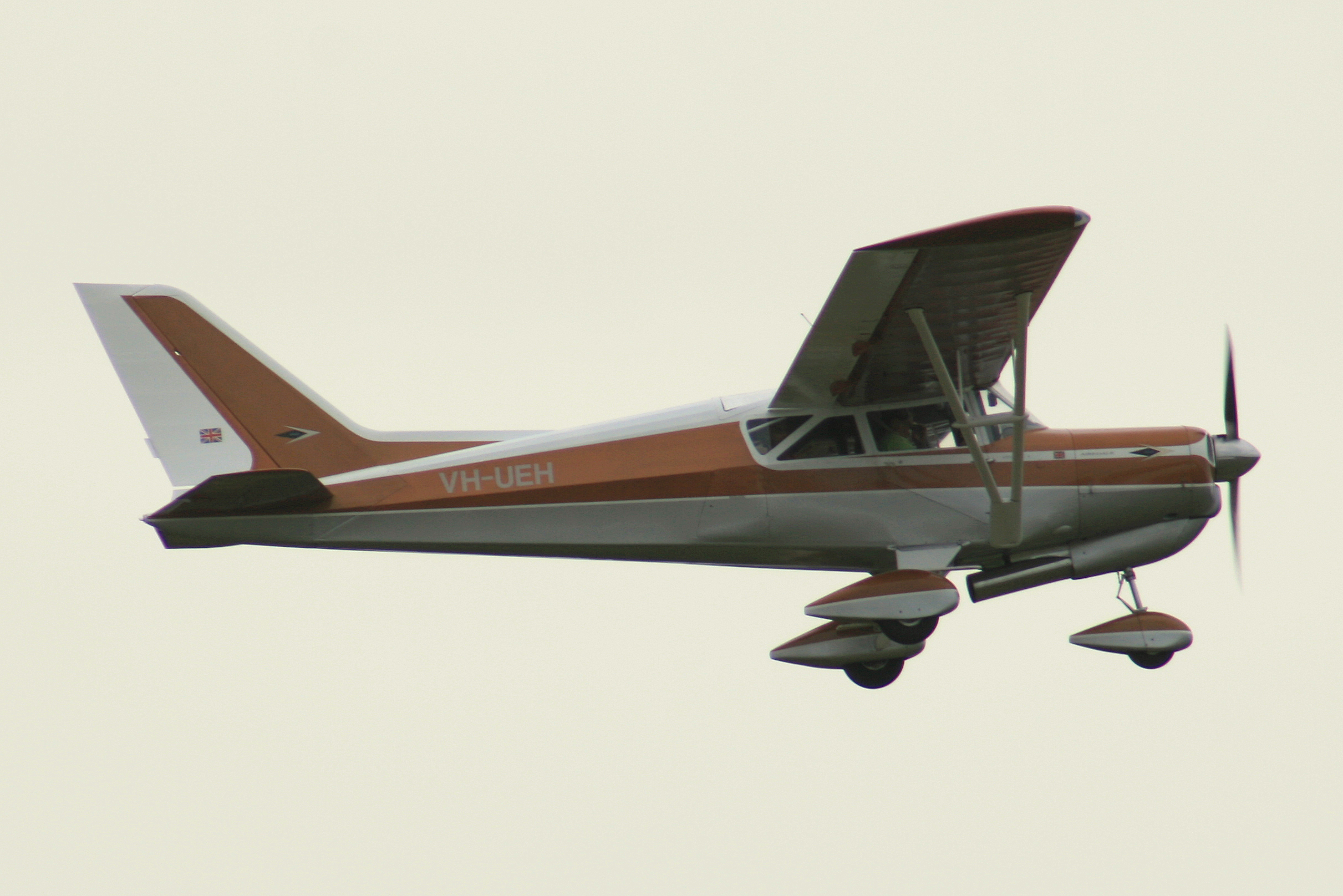 A Beagle 190 Airedale (VH-UEH) at an airshow in Australia at HMAS Albatross, Nowra, New South Wales in 2008.